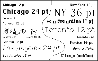 An illustration of the fonts available for the original Apple Macintosh. Character designs by Susan Kare. Trademarks belong to their respective owners. Created by David Remahl on 2004-09-21 using MacDraw using an emulated Mac Plus. I have changed the bit depth from 8 (256-colour palette) to 1 (2-colour palette), decreasing file size considerably. I have also set the resolution of the image to 72 dpi by giving it a pHYs chunk. --Shlomital 12:13, August 5, 2005 (UTC)